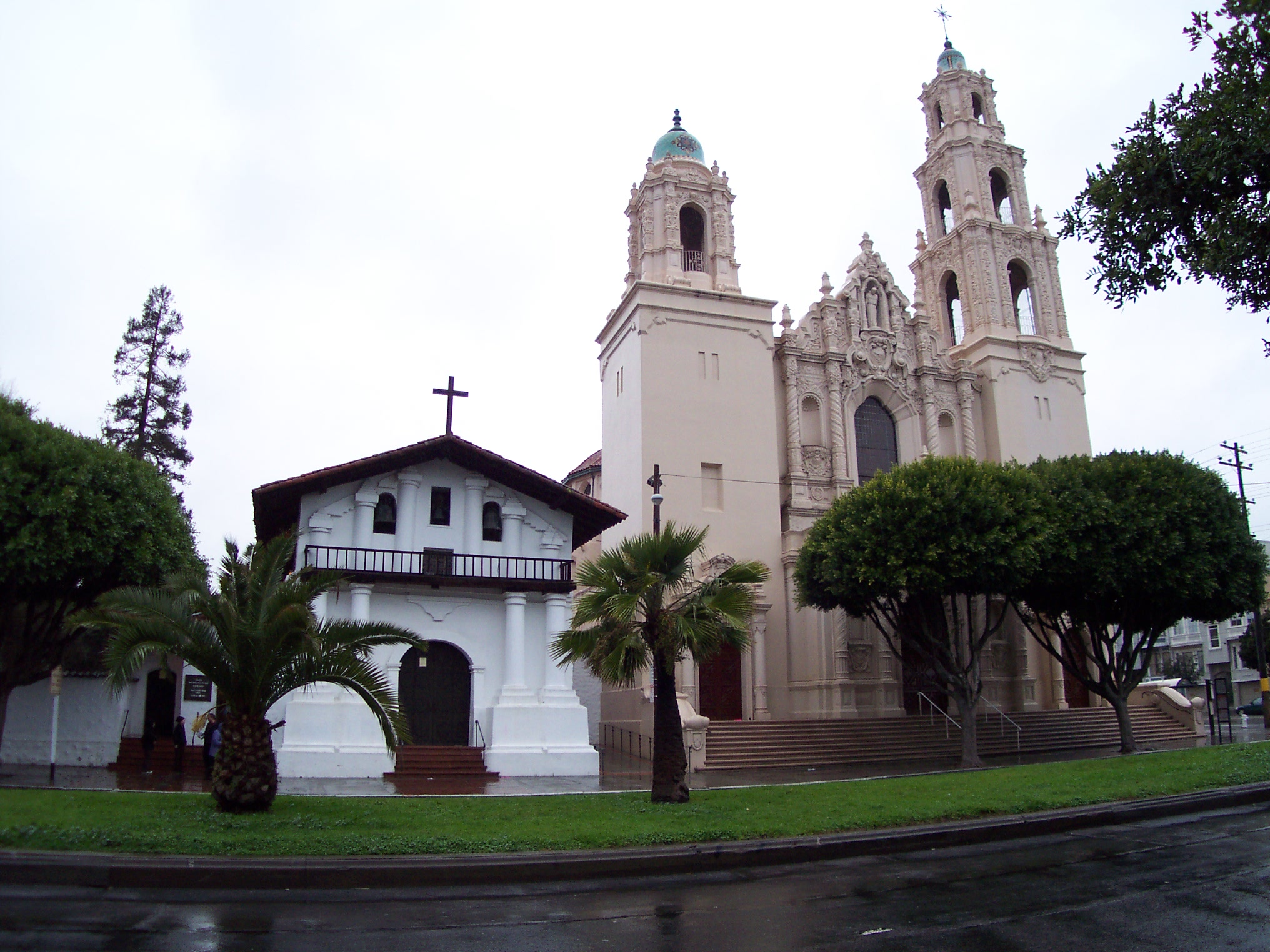 18th-century Spanish Colonial Mission San Francisco de Asis—Mission Dolores (left), and early 20th-century Spanish Colonial Revival style parish church (right). Mission District, San Francisco.